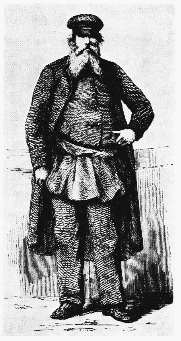 Russian Pomor skipper and trademan from Arkhangelsk. From magazine Ny Illustrete Tidende, 1875